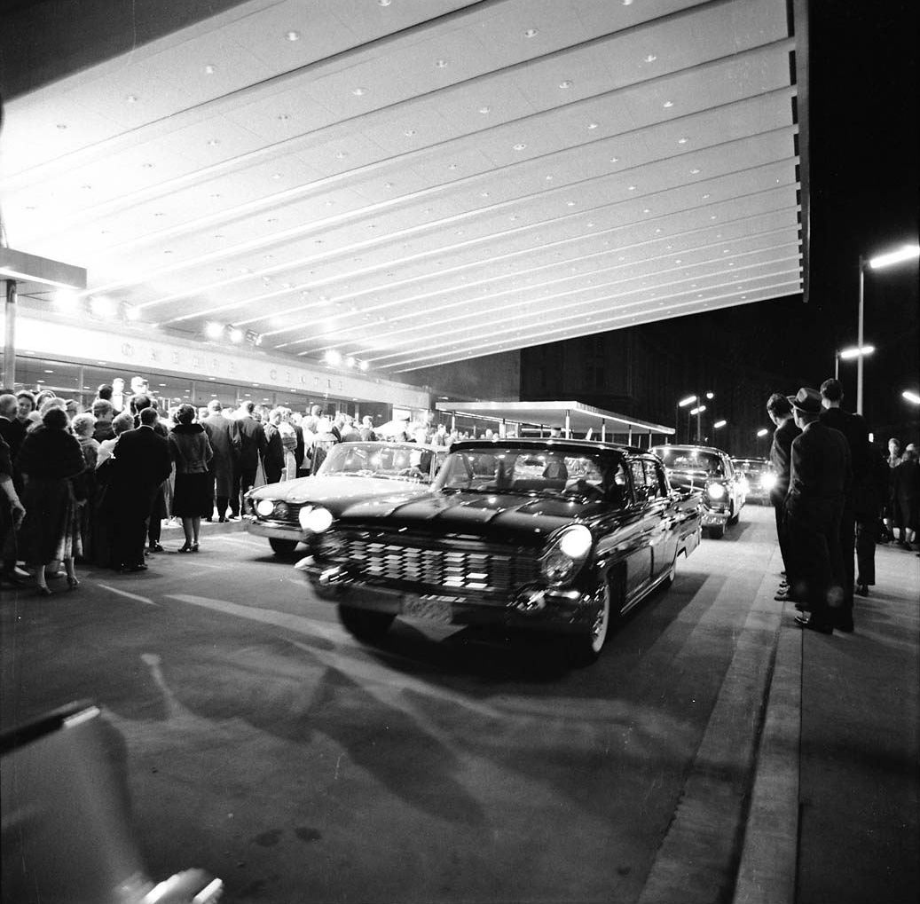 Opening of the O'Keefe Centre in Toronto, Ontario, Canada.